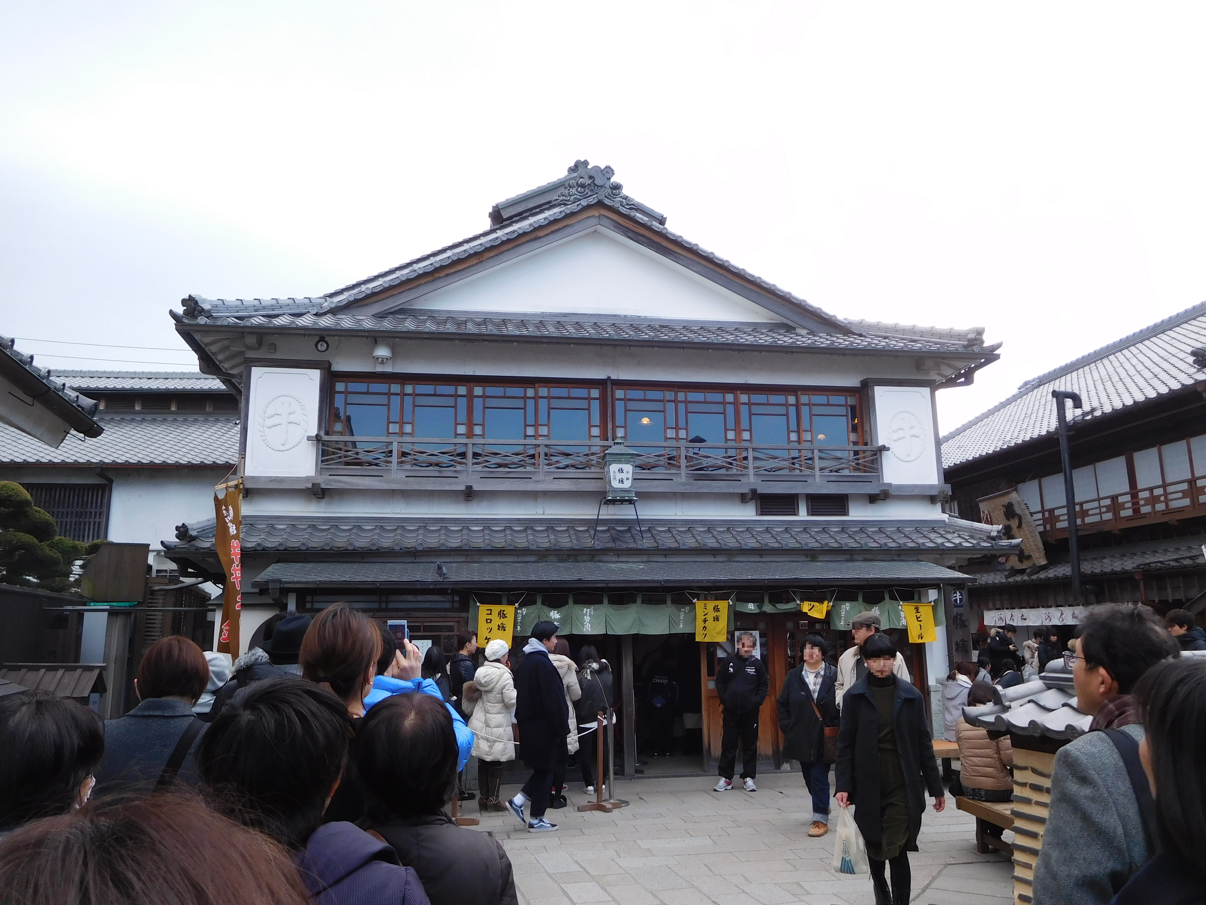 This is Okage Yokocho shop of Butasute in Ise, Mie, Japan.